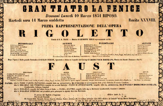 Poster for the world premiere of Verdi's opera Rigoletto (11 March 1851)